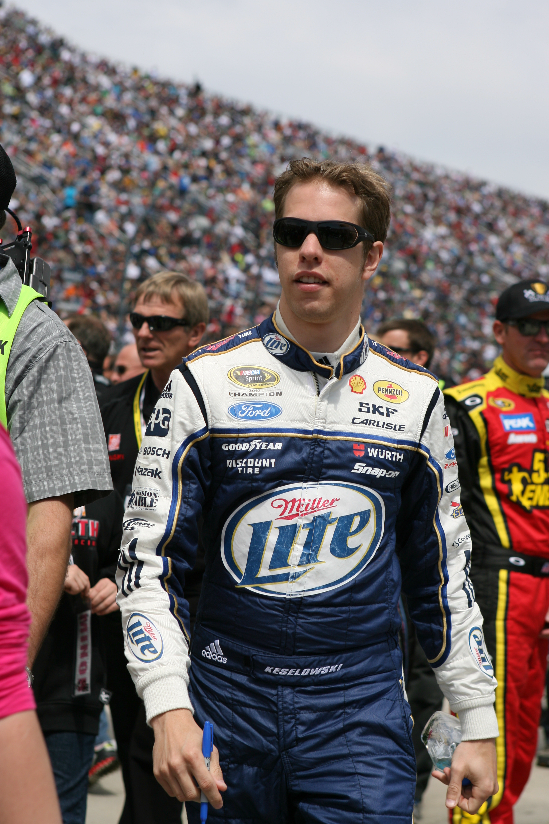 NASCAR driver Brad Keselowski in Martinsville 2013.